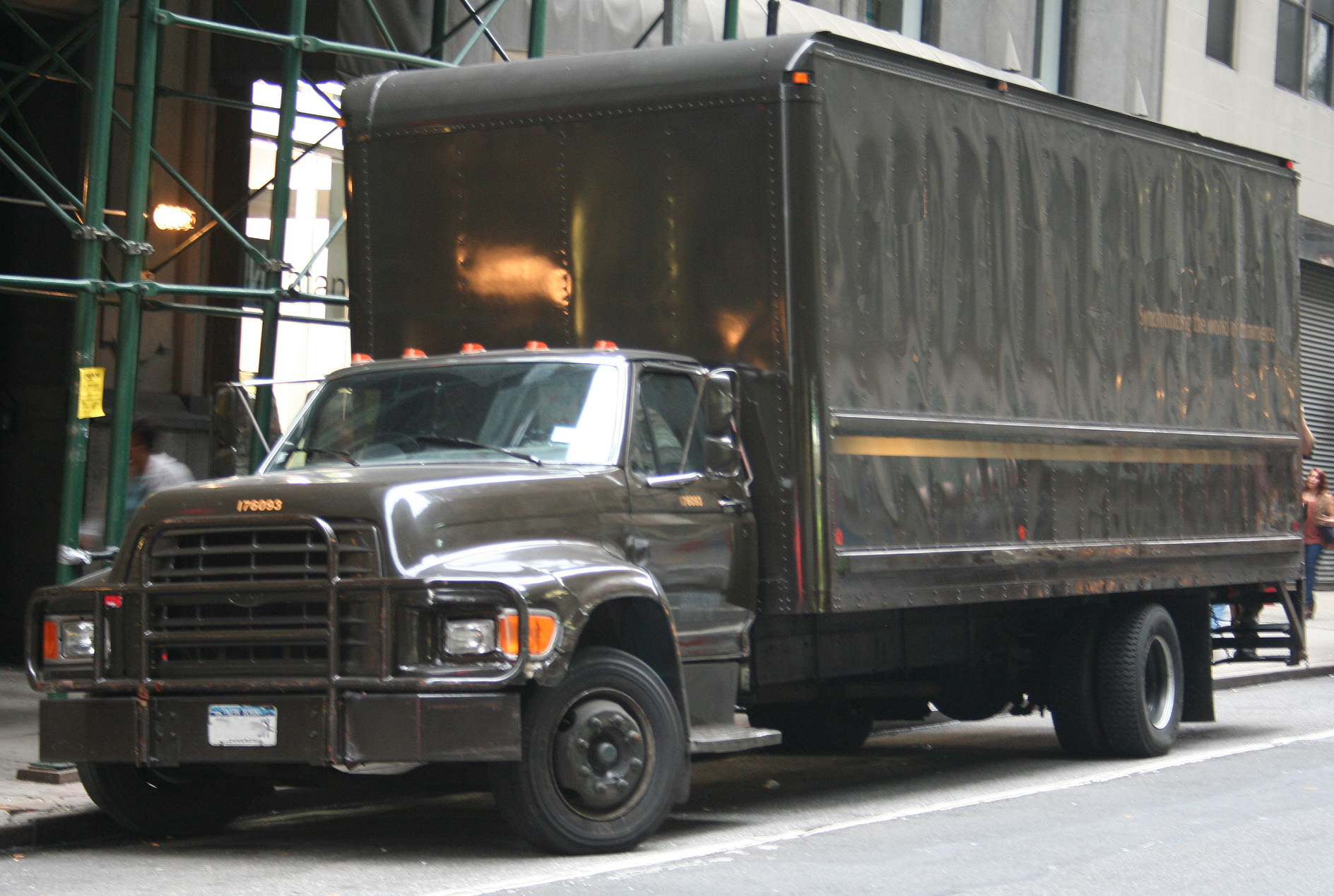 1995-1999 Ford F series heavy duty truck used by UPS